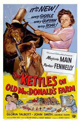 Low-resolution reproduction of poster for the film The Kettles on Old MacDonald's Farm (1957), featuring stars Marjorie Main and Parker Fennelly